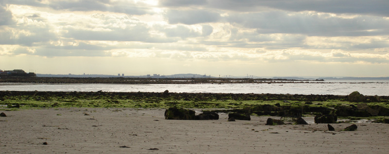 Martin Savage, My Camera, 2006